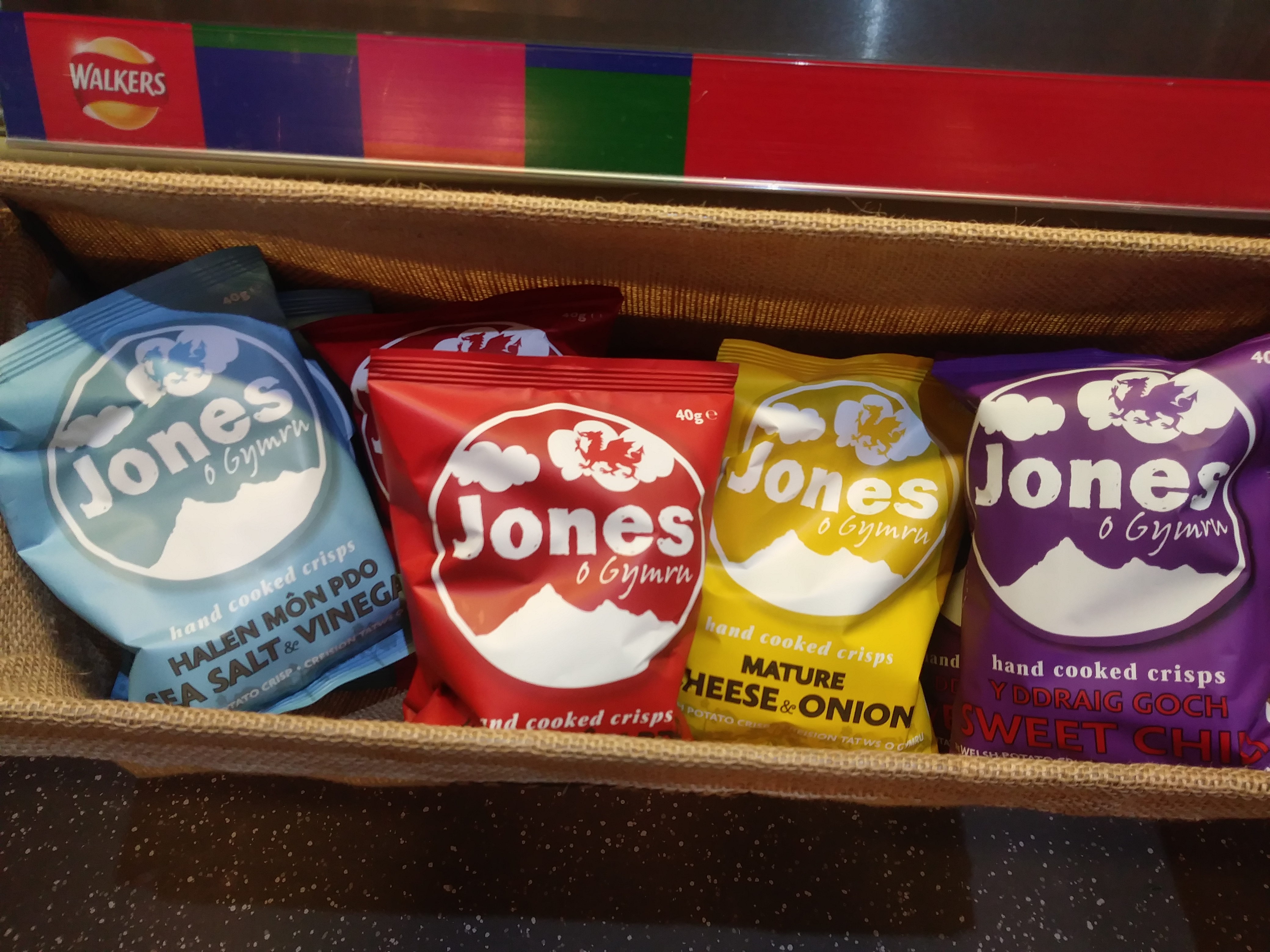 Crisps packages in different flavours by 'Jones of Wales' crisp (potato chips) makers. Bilingual branding, Welsh and English, On sale in Aberystwyth 2019.